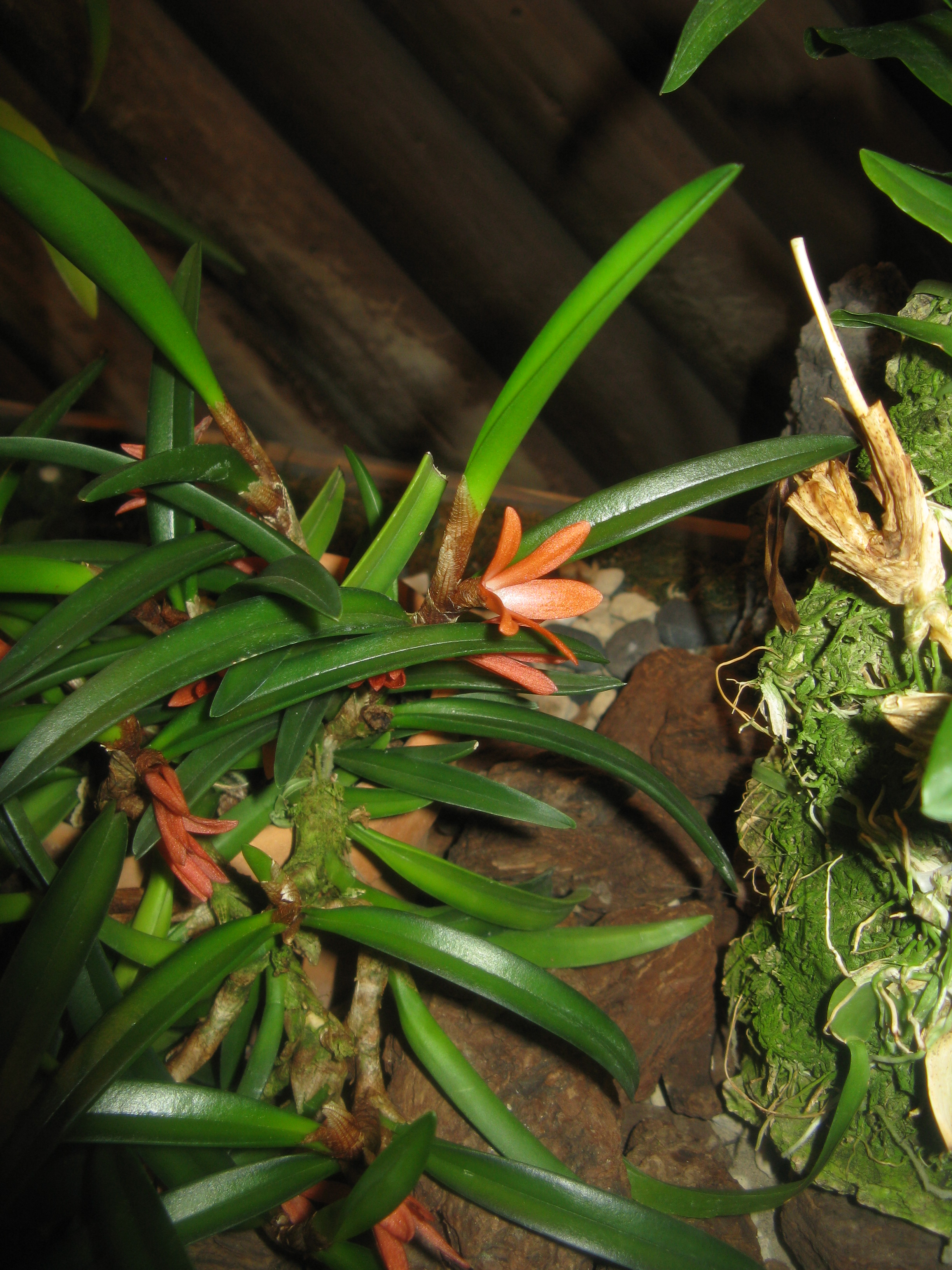 Scientific name Ceratostylis rubra Place:Osaka Prefectural Flower Garden,Osaka,Japan